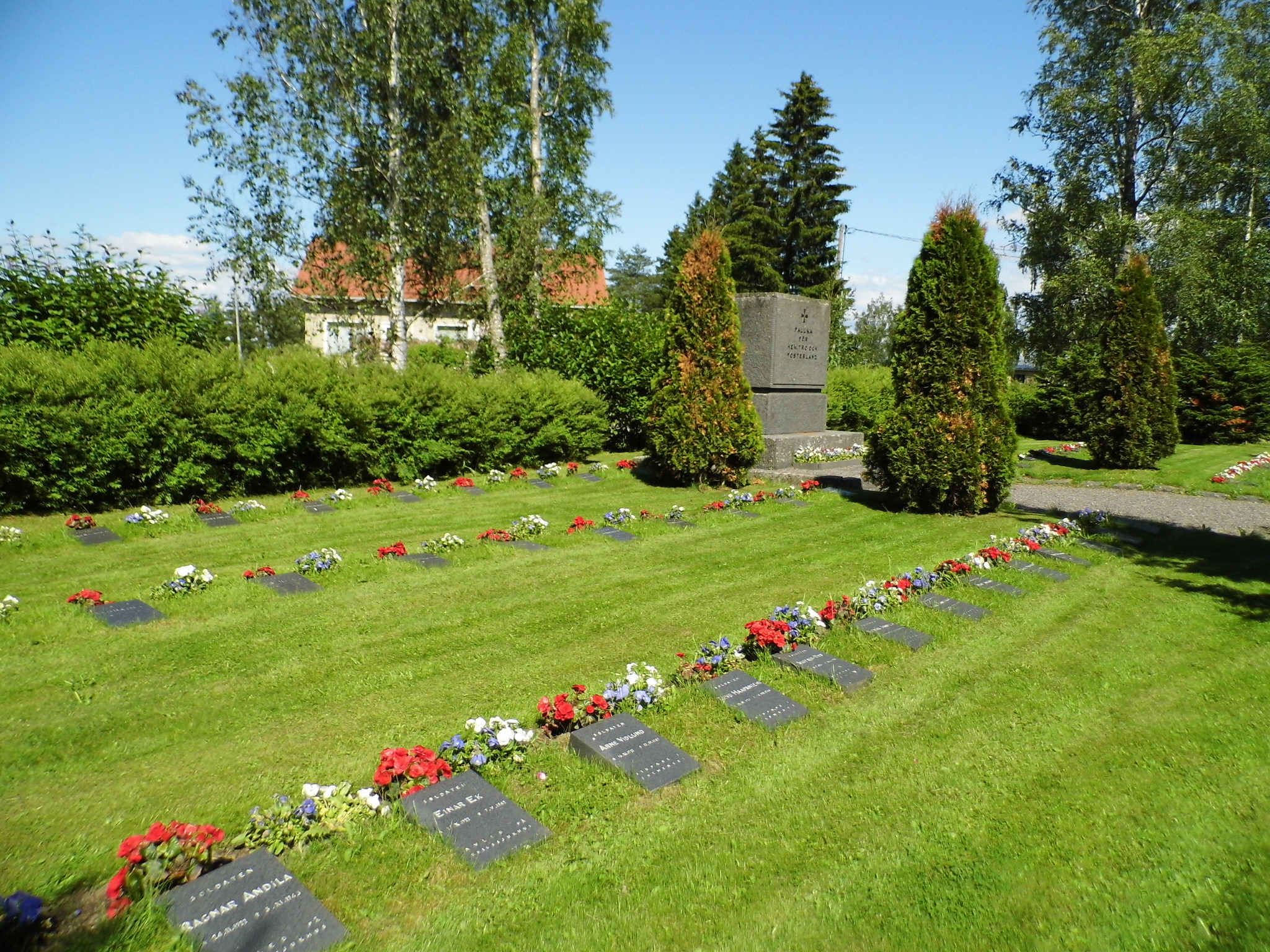 Military cemetary at church in Pirttikylä, Finland